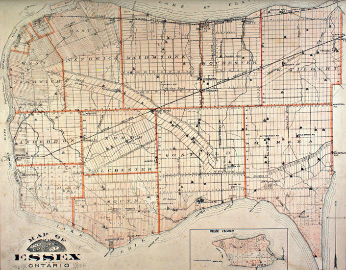 This is a nineteenth century map of Essex County, Ontario